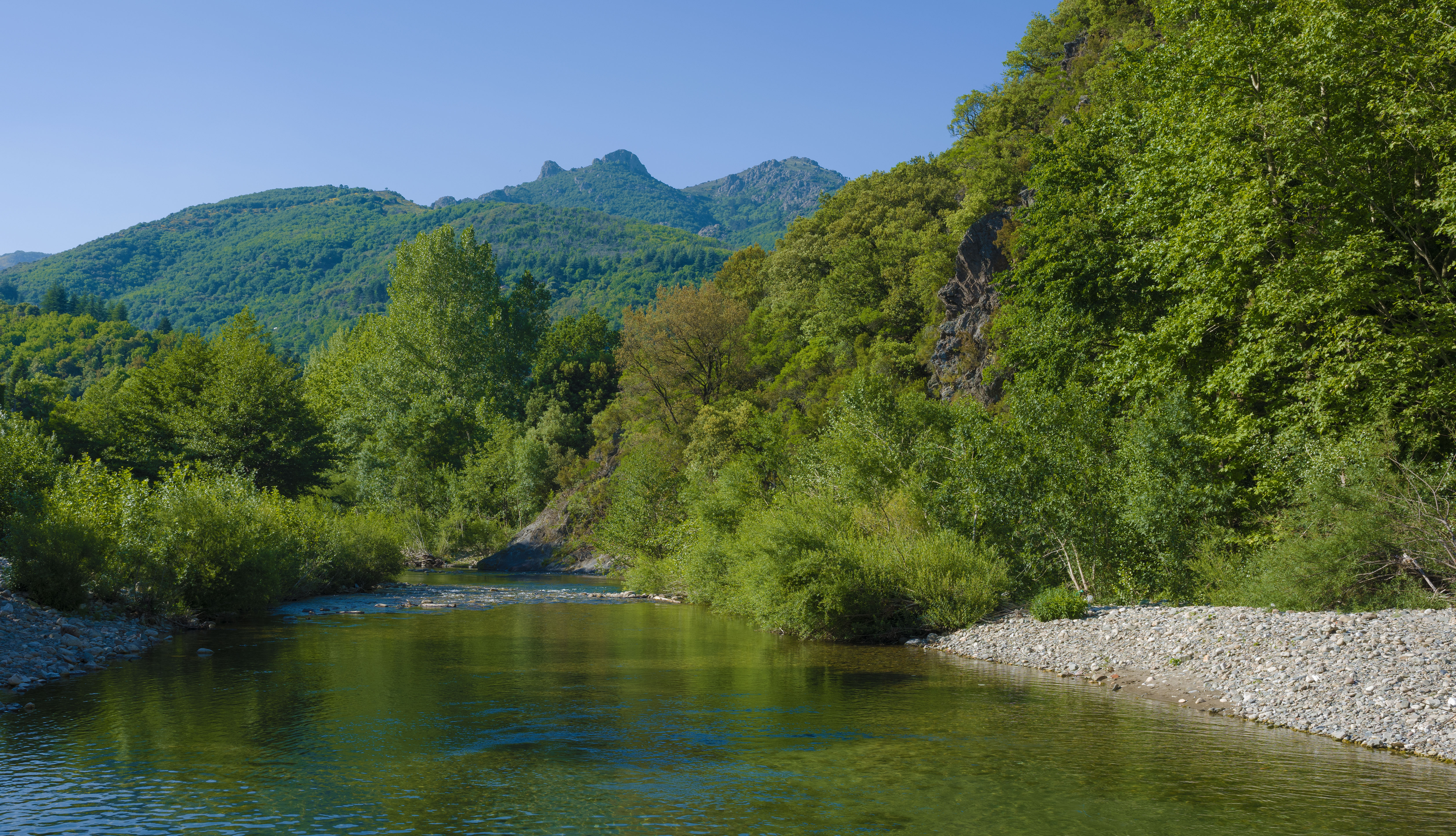 Jaur River in Olargues, Hérault, France.